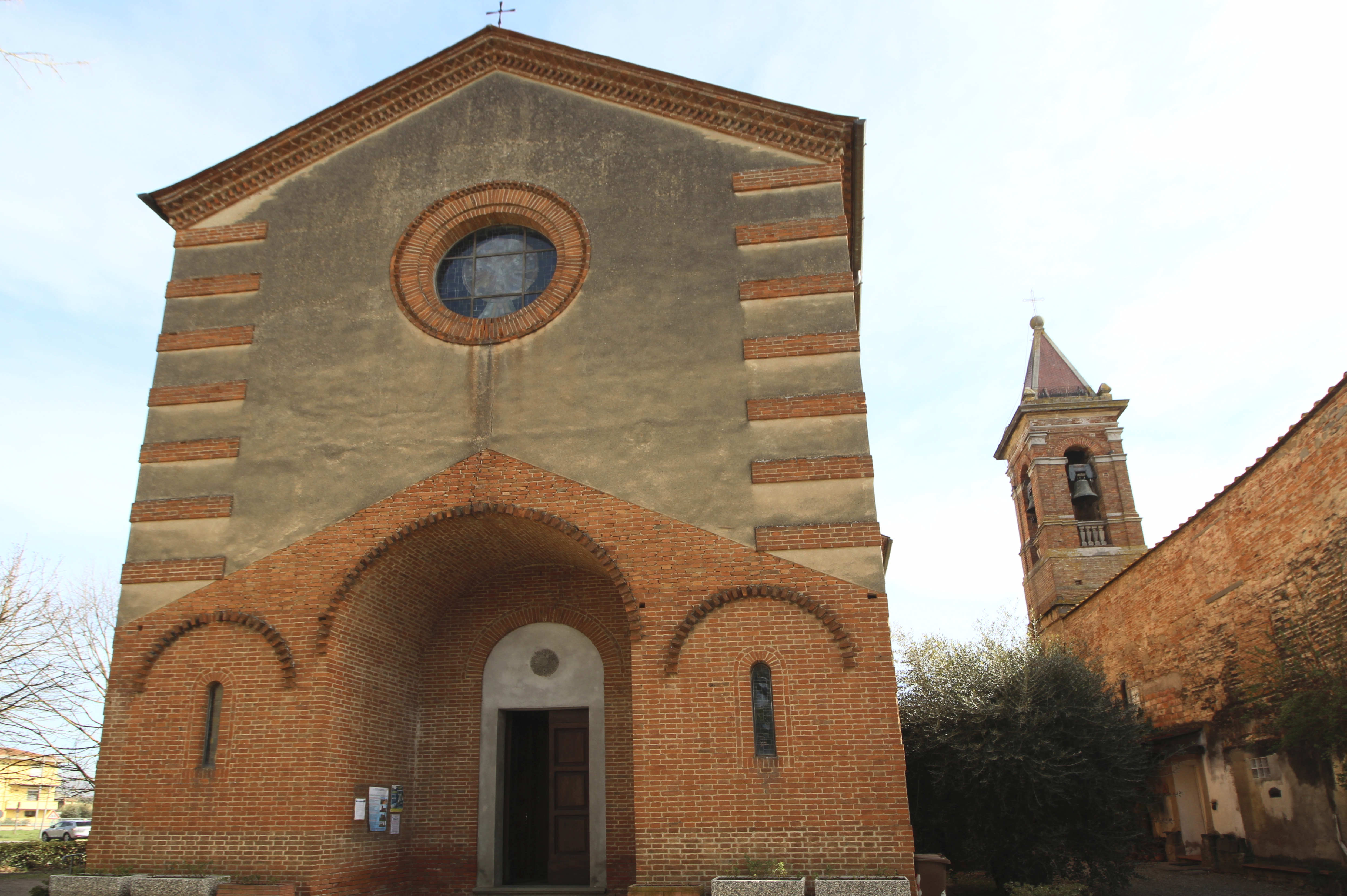 church San Donato, Isola, hamlet of San Miniato, Province of Pisa, Tuscany, Italy